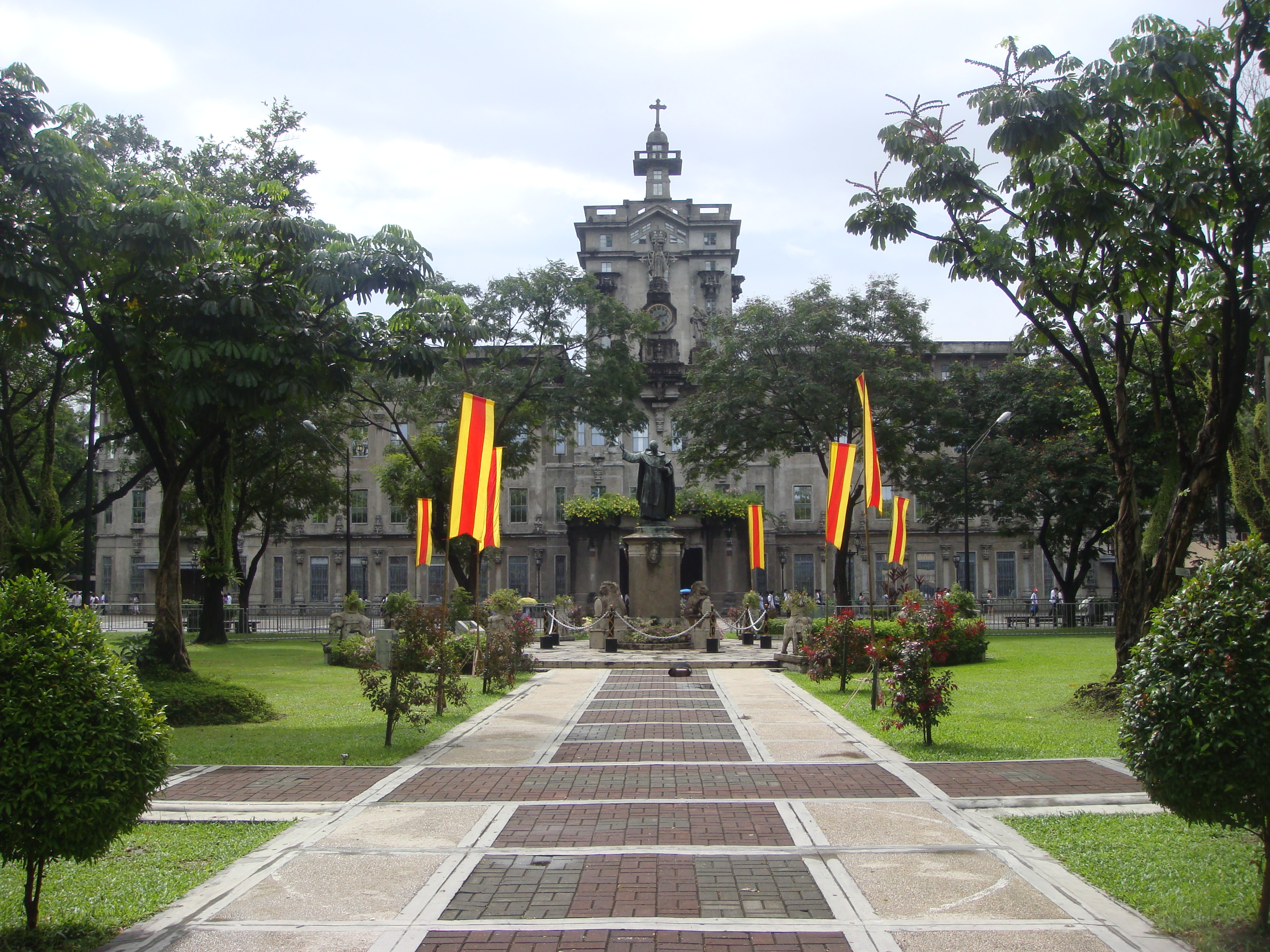 UST park and gardens — and Main Building.